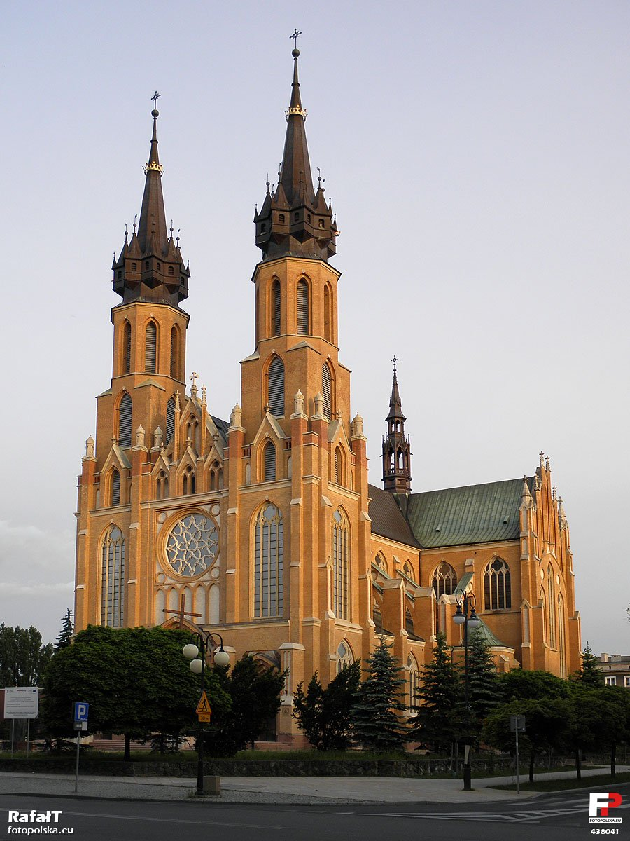 St. Mary's Cathedral in Radom, Poland - general view